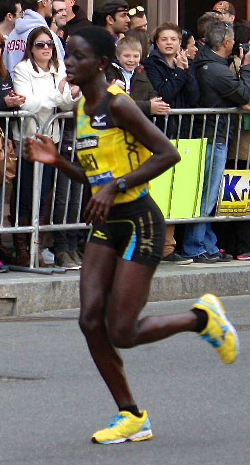 Copyright © 2013 Sonia Su. Boston Marathon.